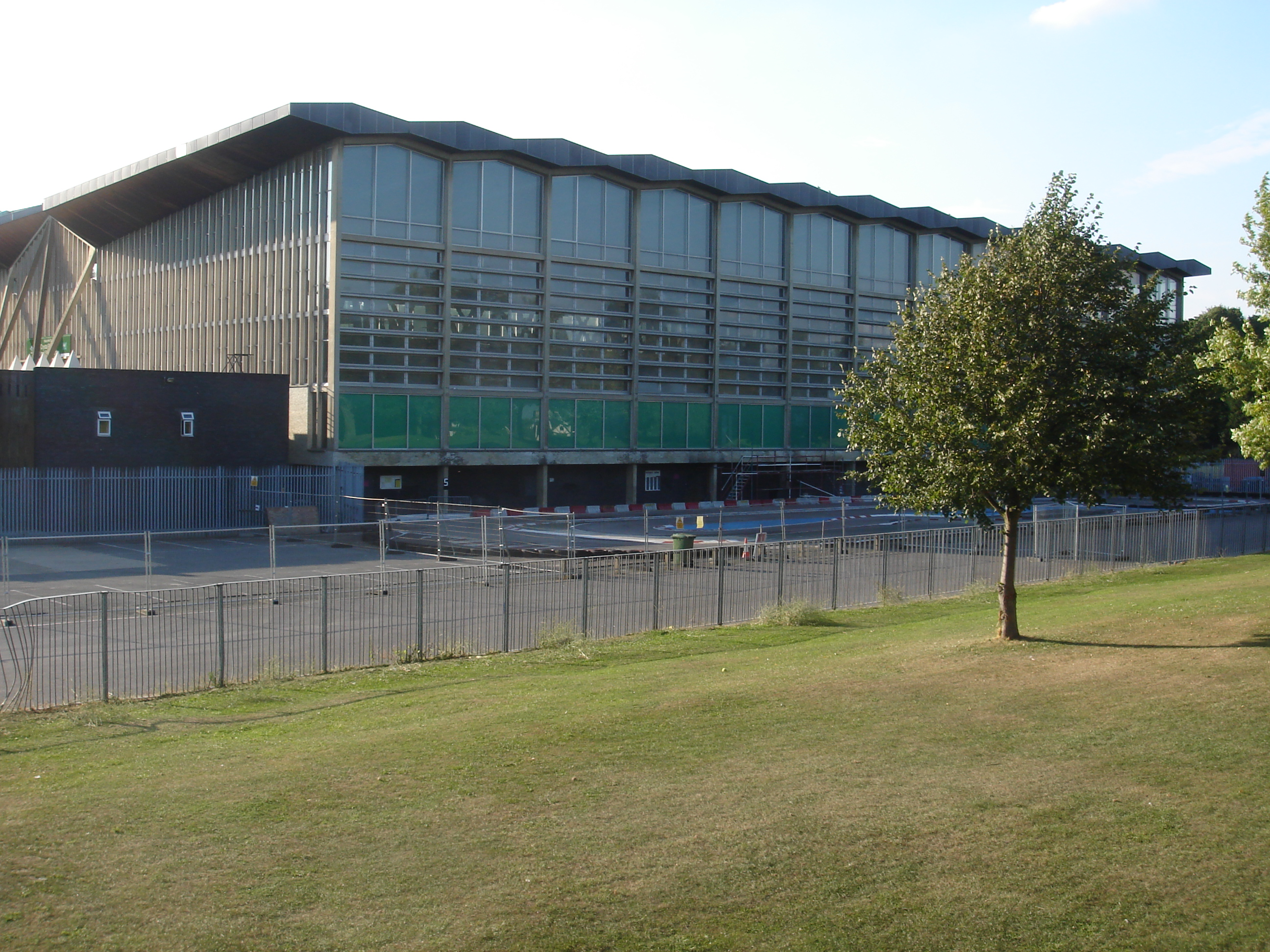 Crystal Palace National Recreation Centre